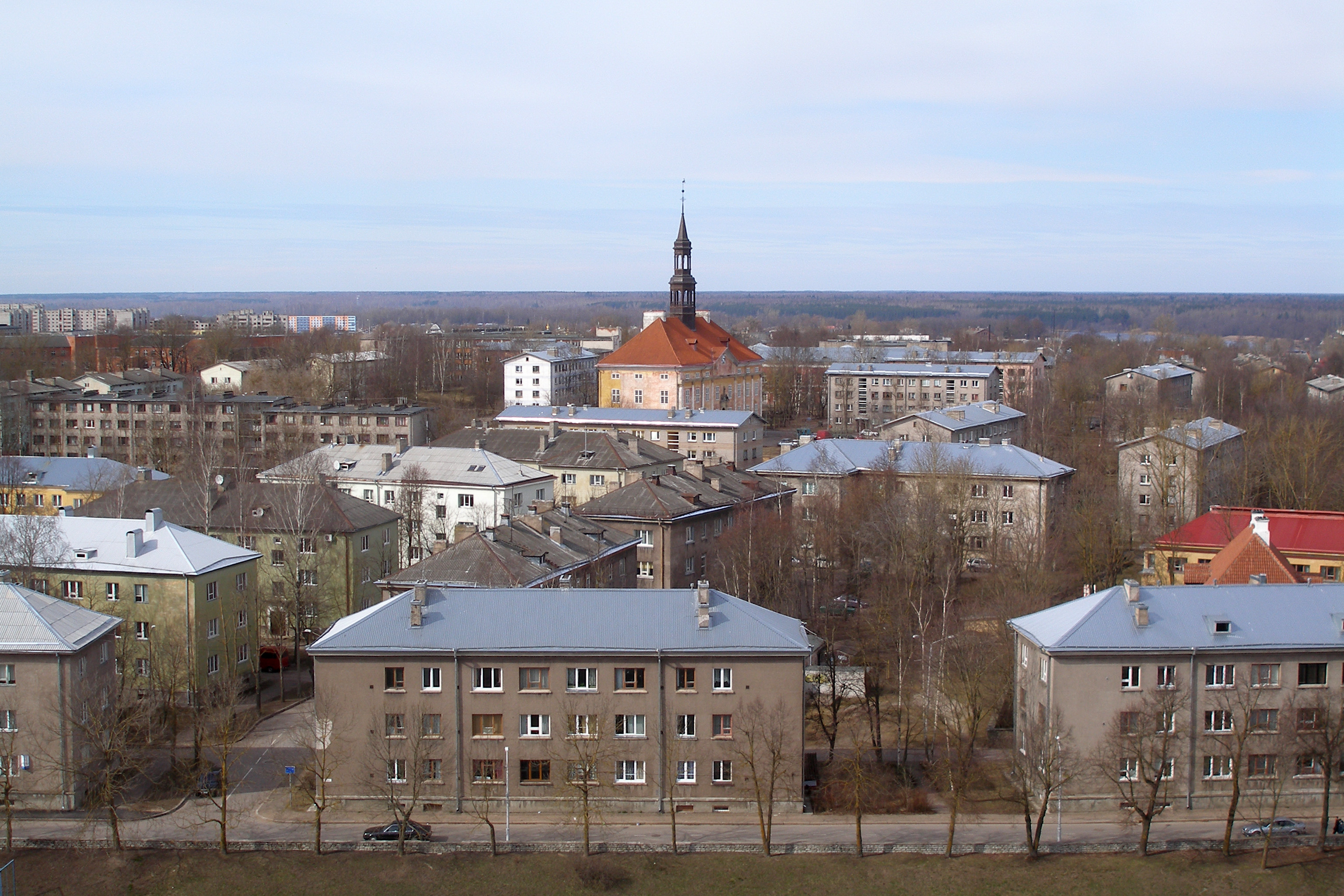 Narva town hall in what was before WWII the old town, surrounded by Soviet-era buildings.